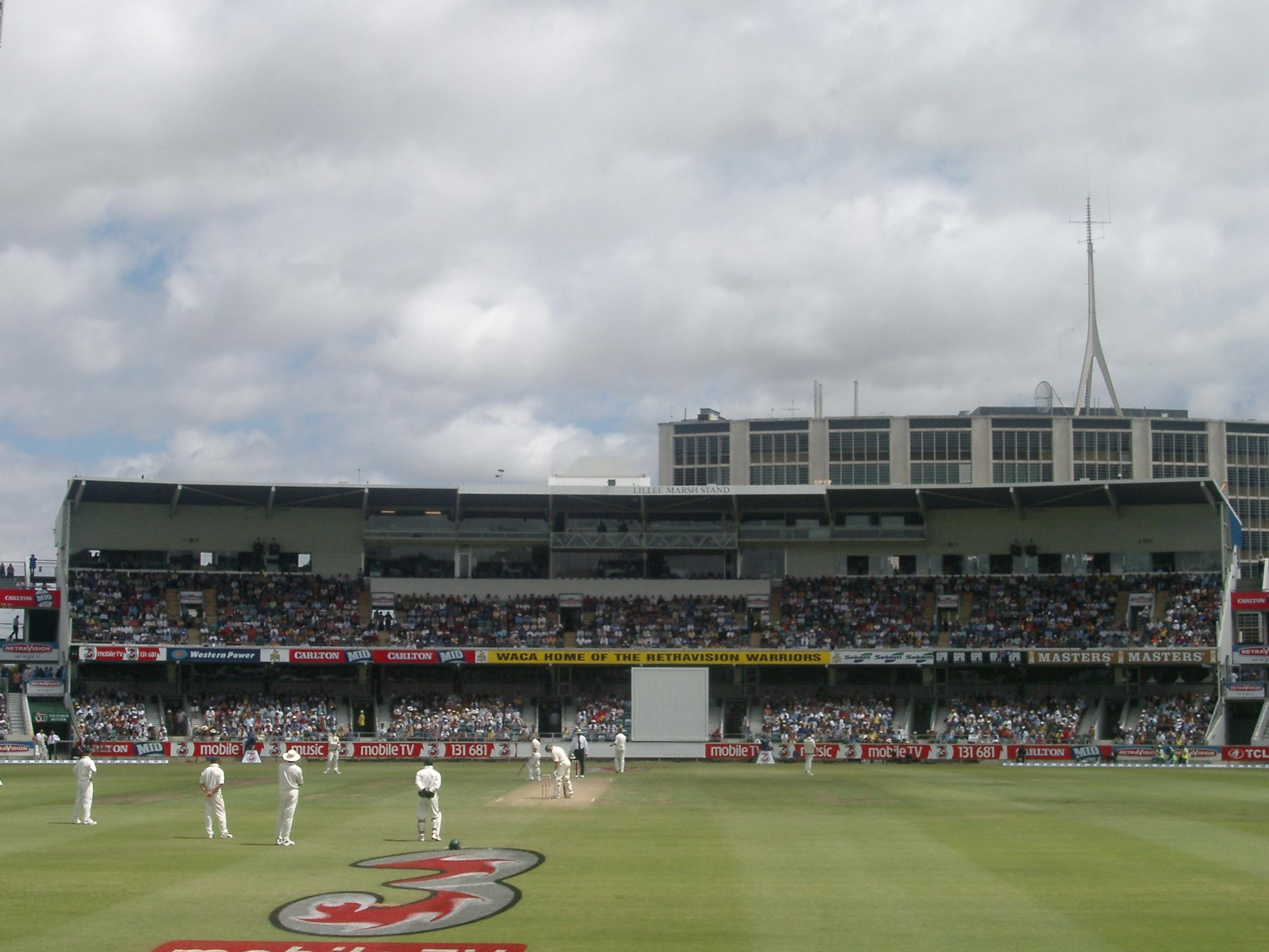 The Lillee-Marsh Stand at the WACA Ground. Taken during the first day of the first test, Australia vs South Africa, 16 December 2005